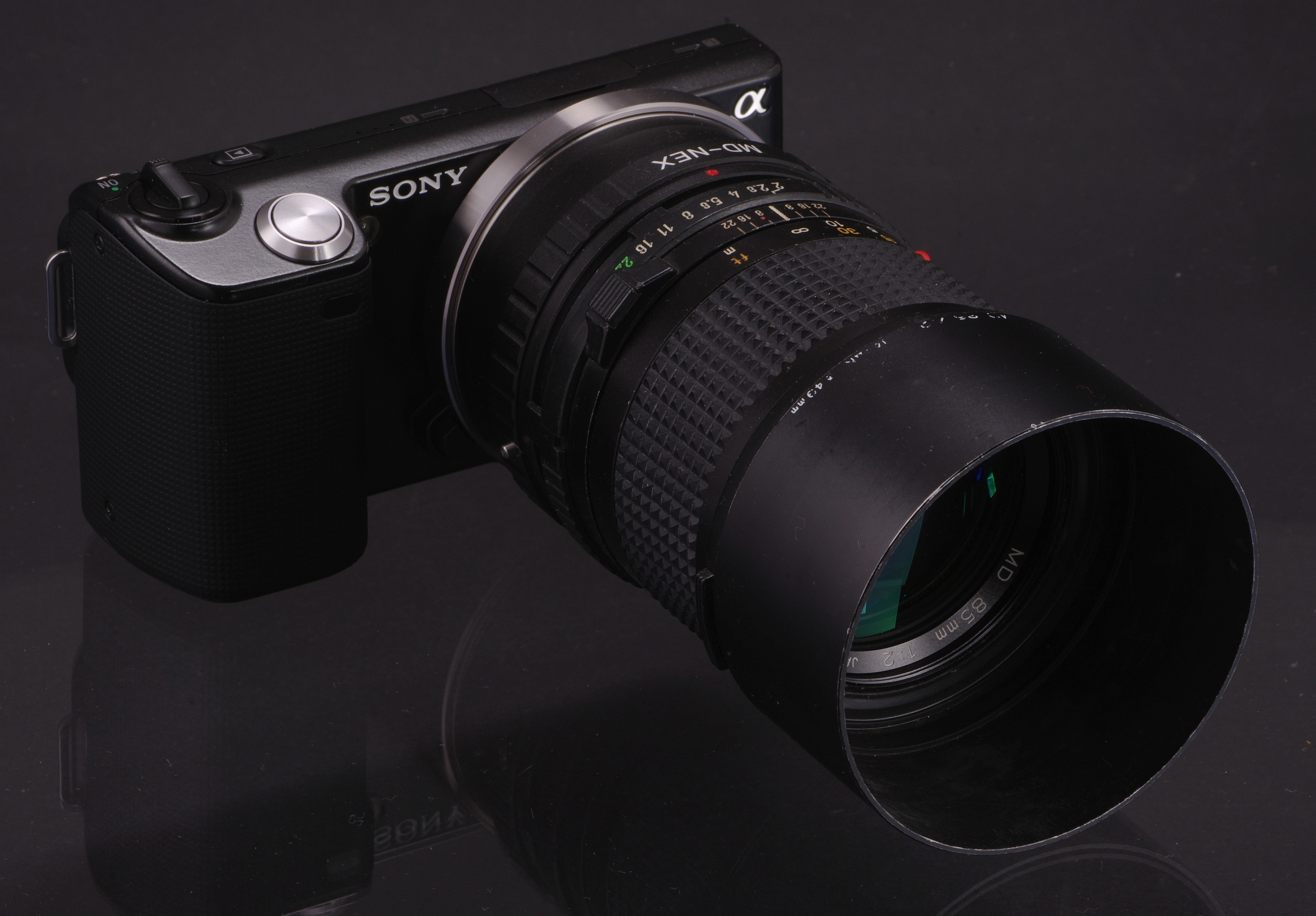 Old manual Minolta MD f/2 85mm adapted to Sony NEX 5